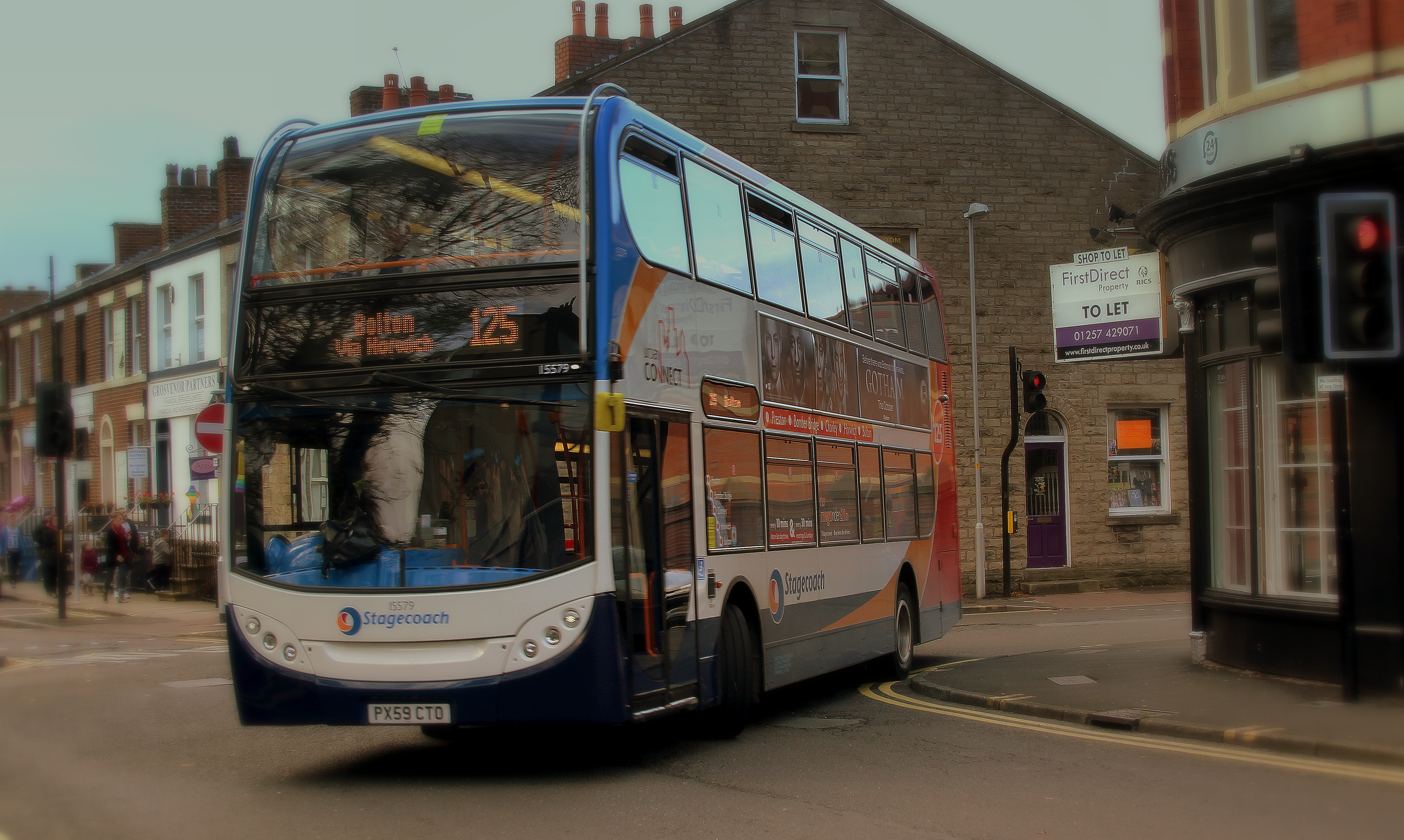 STAGECOACH LANCASHIRE ALEXANDER DENNIS ENVIRO 400 ROUTE 125 CHORLEY LANCASHIRE NOV 2014